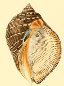 Genus Purpura, Plate II. Purpura persica